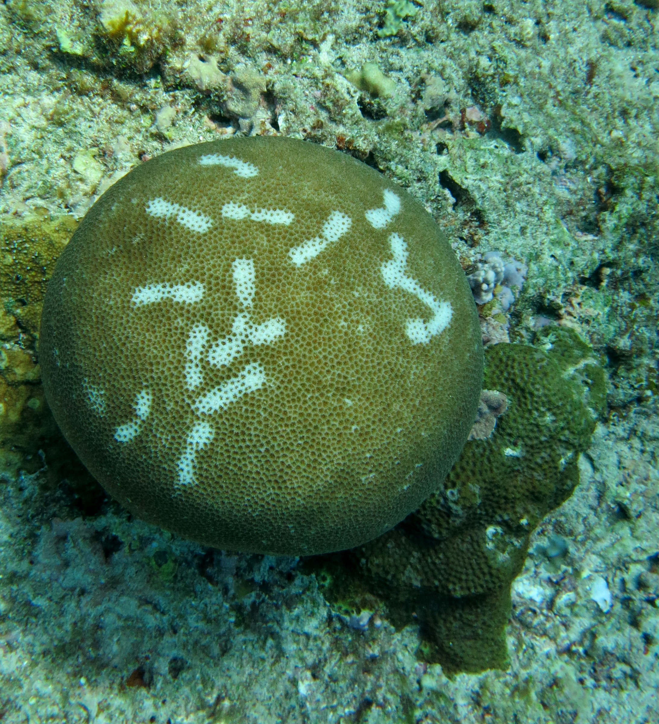 Underwater images from the Lakshadweep atolls.